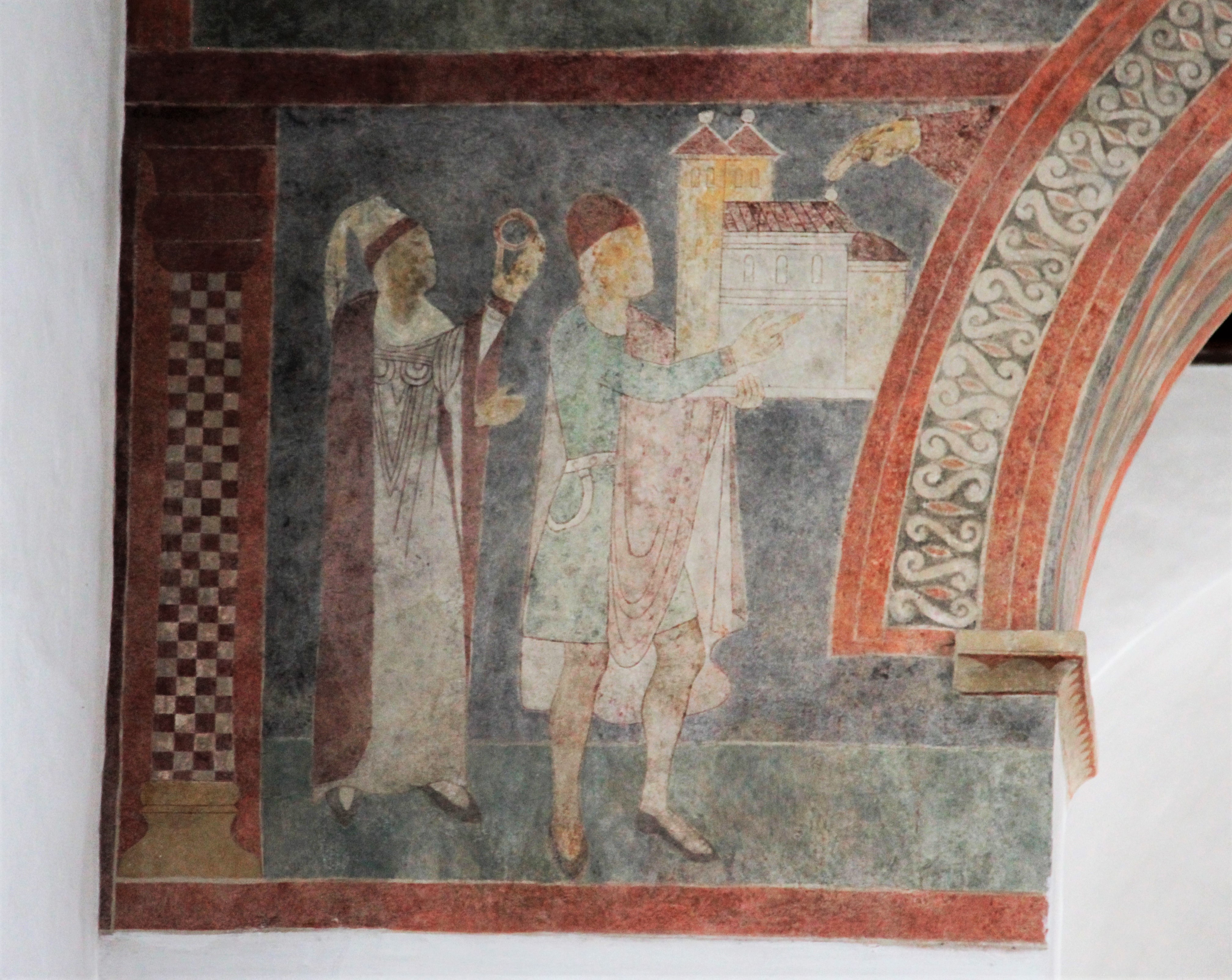 Fresco in Fjenneslev Church